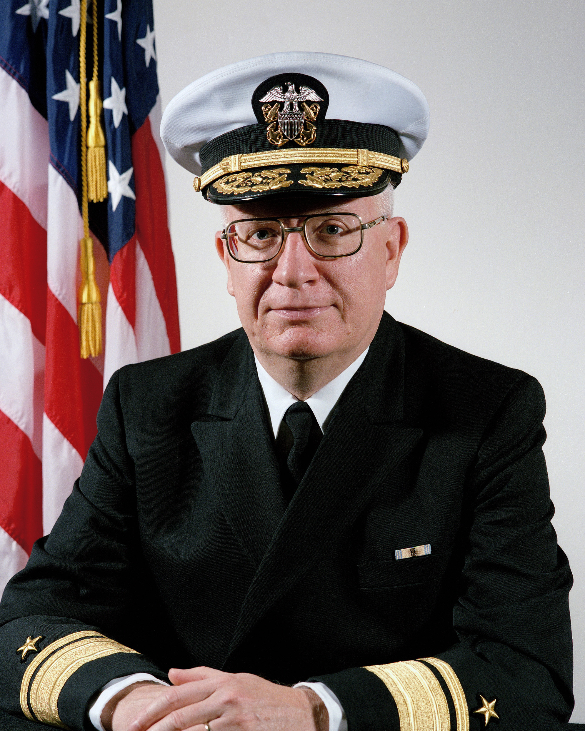 RADM (upper half) James E Taylor, USN